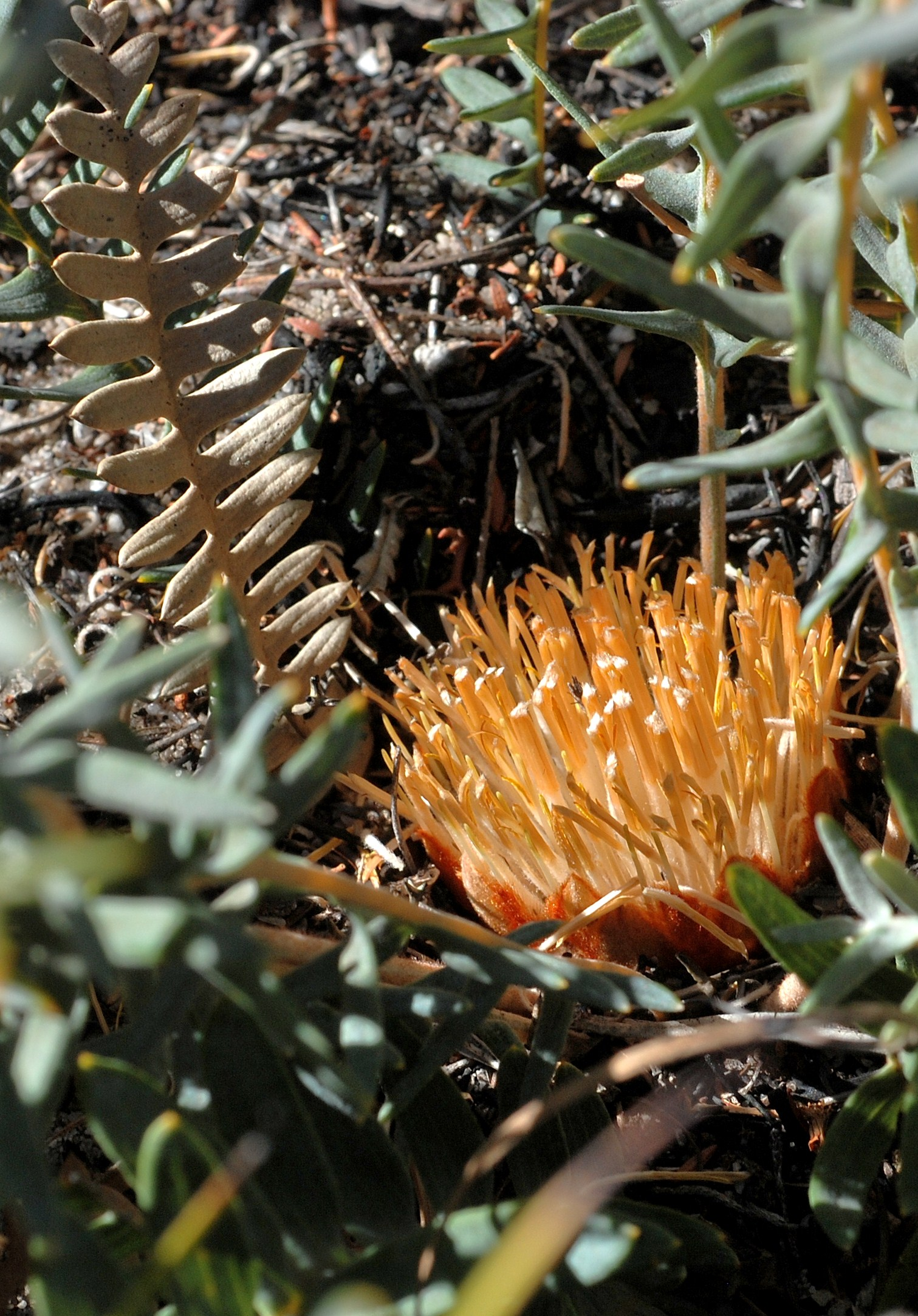 Banksia aurantia - formerly Dryandra aurantia. This magnificent but strange plant is quite rare and only grows in a few areas.